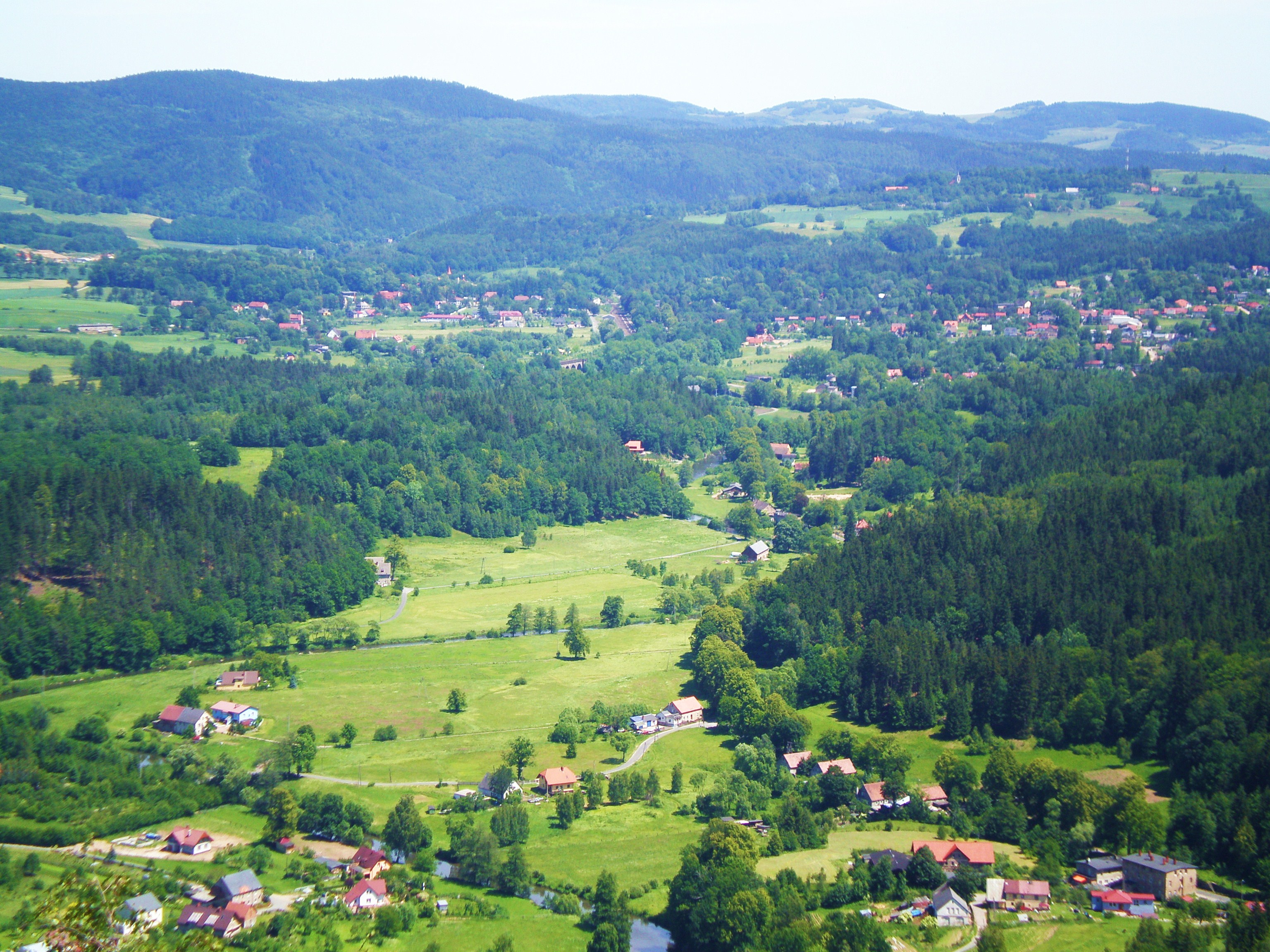 Panorama of Janowice Wielkie